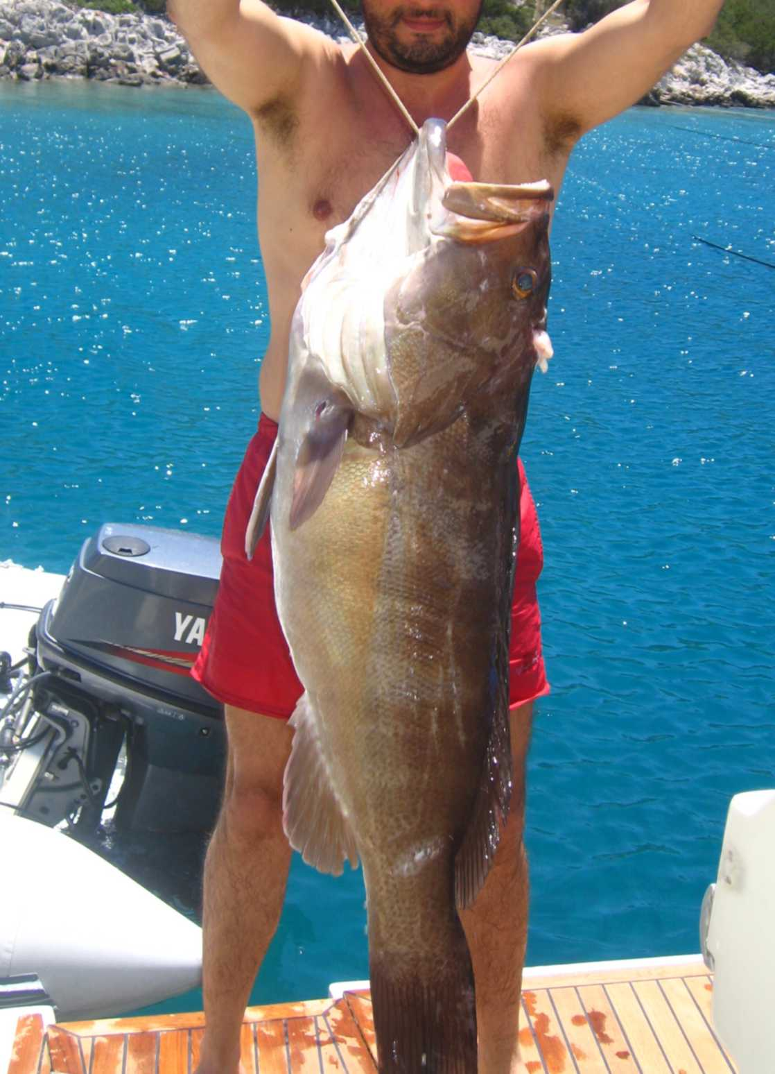 One of my sfyrides (Epinephelus aeneus)... Photo by friend in Dhokos (near Hydra).